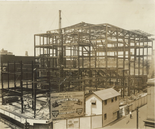 The new Orpheum Theatre at Main and Beale streets was constructed on the site of the Grand Opera House in 1928.